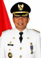 Adirozal, Kerinci Regent, Jambi Province 2014-2019.